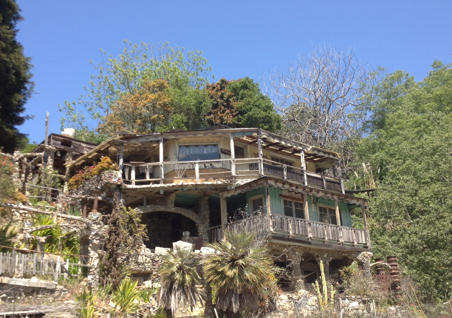 Nitwit Ridge, Cambria, a State Historic Site